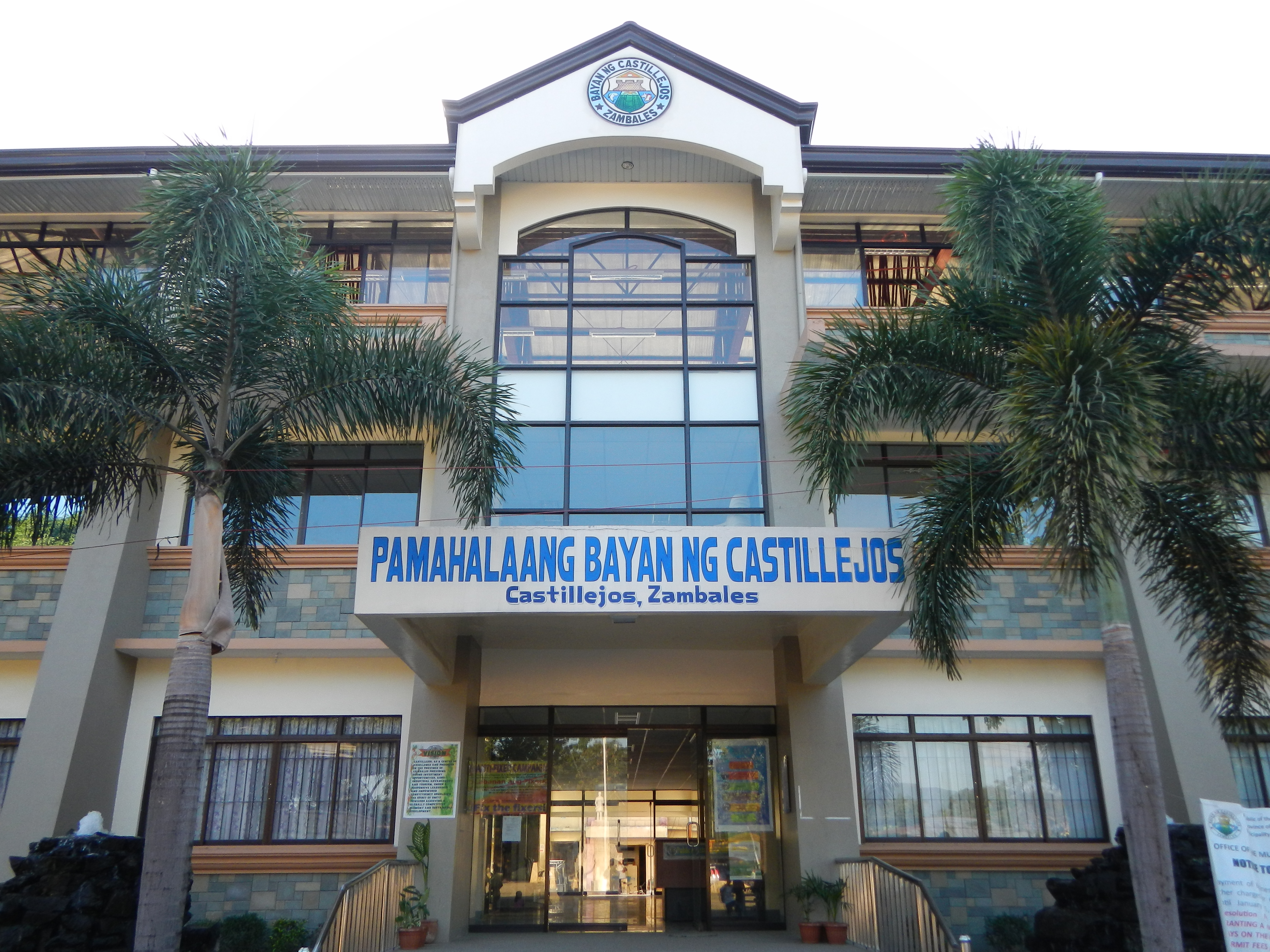 Castillejos, Zambales[1] is a municipality in the province of Zambales, Philippines. Castillejos is now a developing municipality because it has some commercial establishments like 7-eleven, Chic-boy, Andoks, and RM Mall which is the first mall in the town. The settlement we now know as Castillejos was founded sometime in the middle of the 18th century. According to Agustin Dela Cavada in his Historias Filipinas, the creation of Castillejos took place – 1743, while that of Subic in 1769. Jose Angelo M. Dominguez Mayor – July 1, 2010 – present[2]